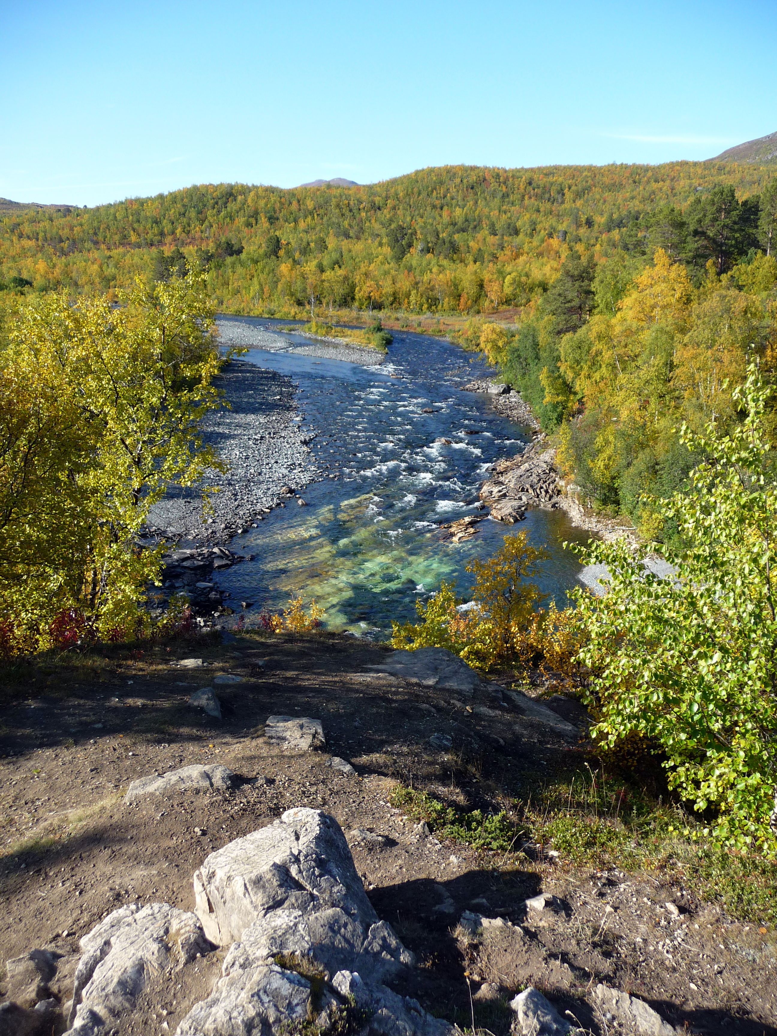 The river Abiskojåkka, in Abisko national park and the autumn colors on the leaves of the birch forest.